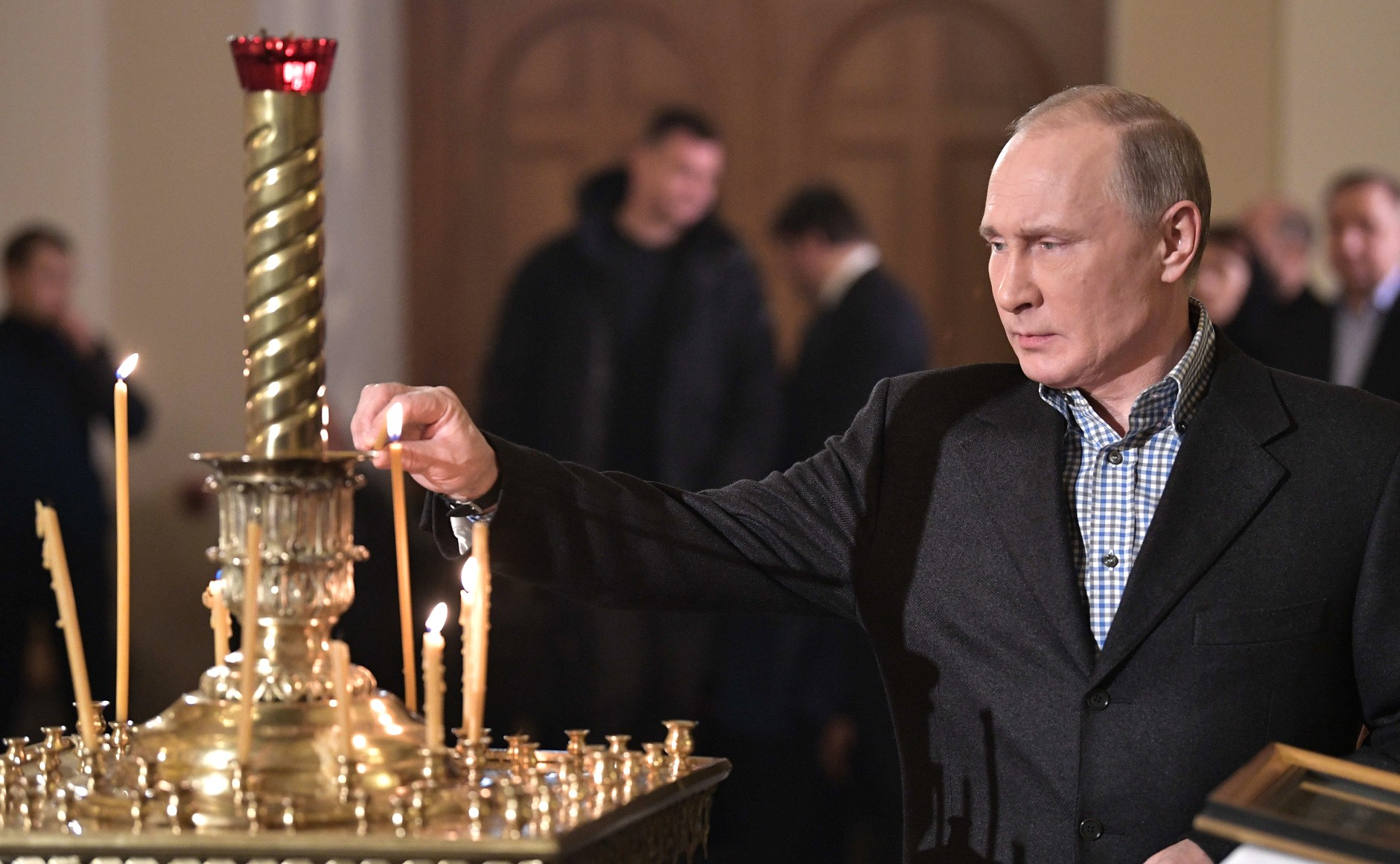 Vladimir Putin at Christmas service at the Church of Simeon and Anna (St. Petersburg; 2018-01-07)